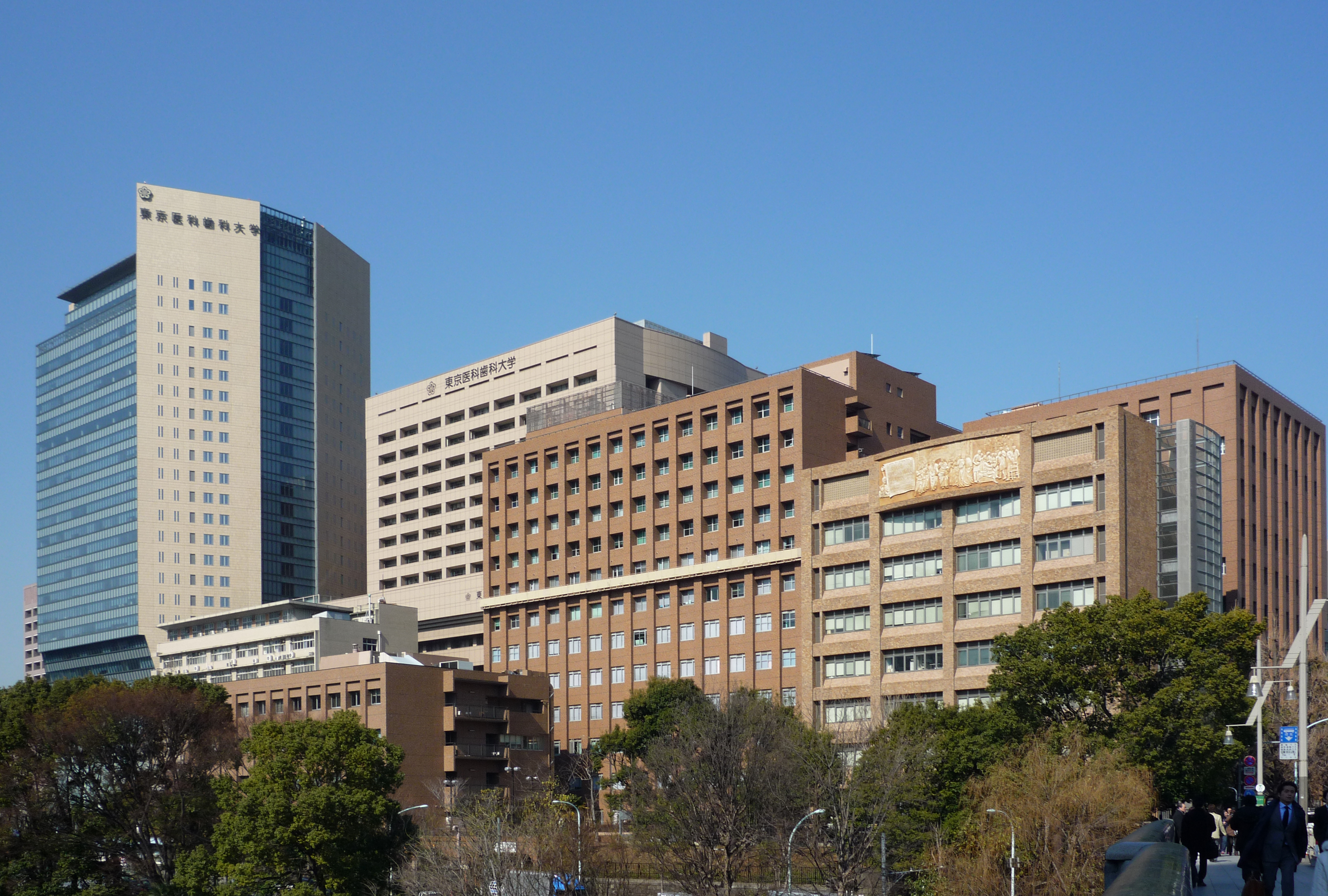 Tokyo Medical and Dental University in Tokyo, Japan. A view from Hijiri Bridge.